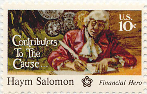 Haym Salomon stamp, 1975, 10 cents